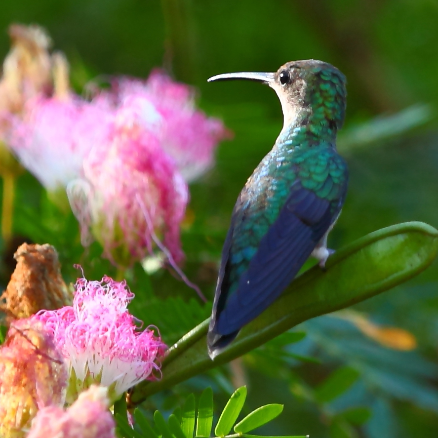 Fork-tailed Woodnymph at Alta Floresta - MT -Brazil